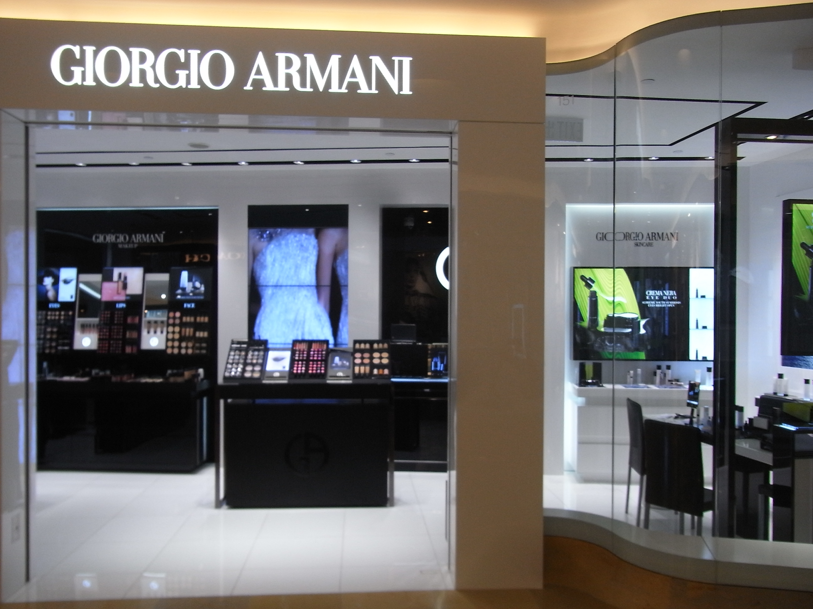 太古廣場